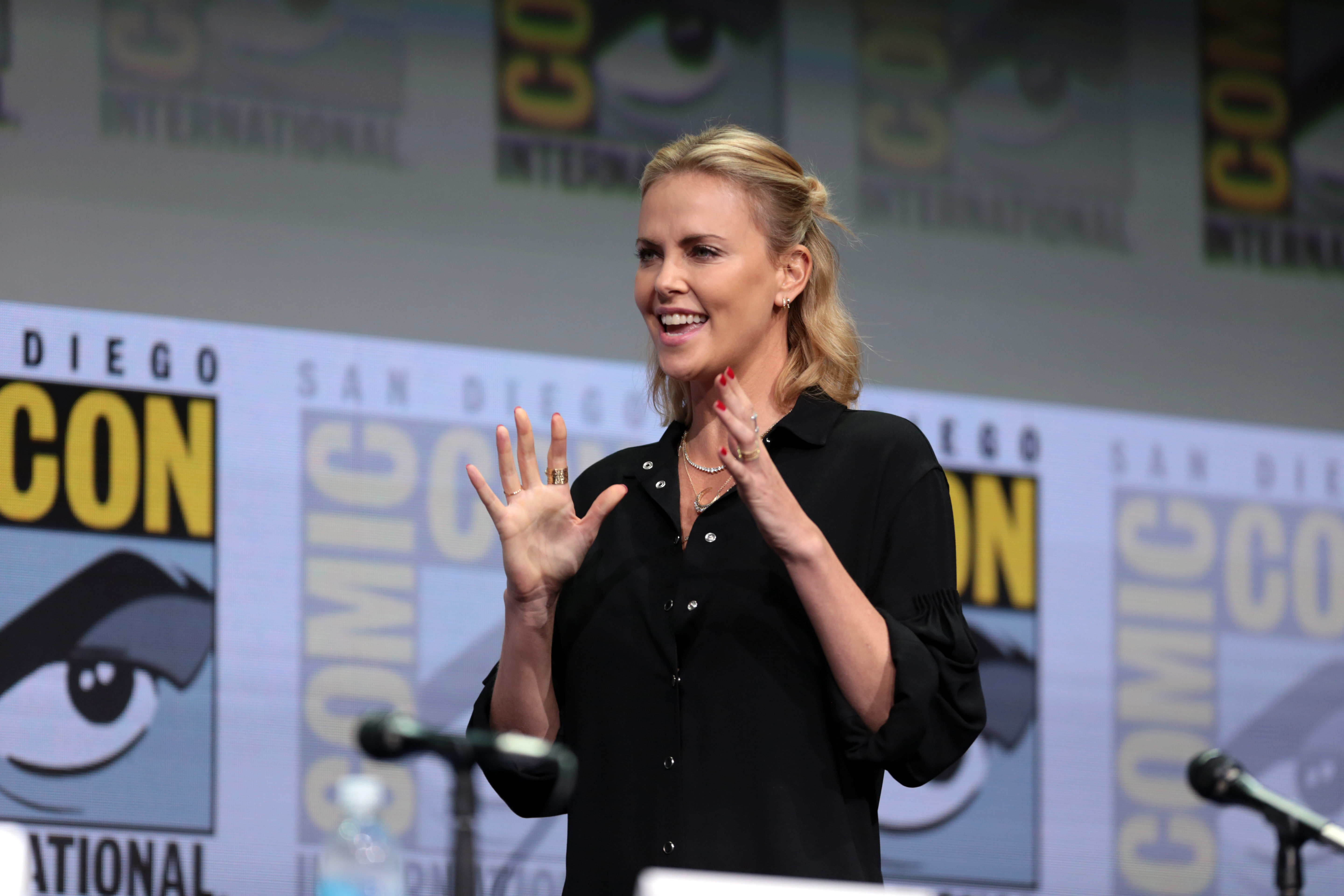 Charlie Theron speaking at the 2017 San Diego Comic Con International, for "Entertainment Weekly: Women Who Kick Ass", at the San Diego Convention Center in San Diego, California.